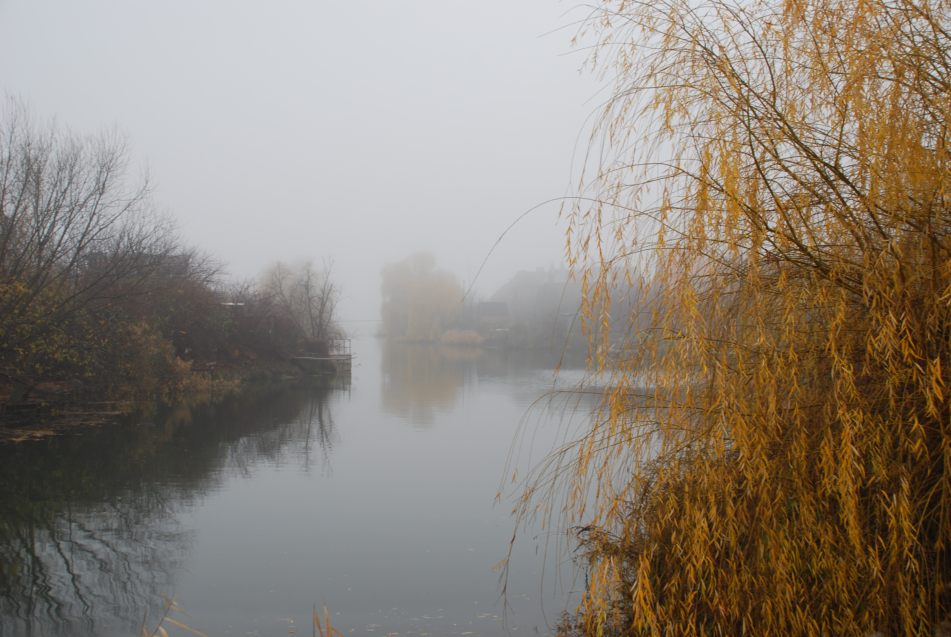 Sukhoy Chaltyr River in Karataevo.